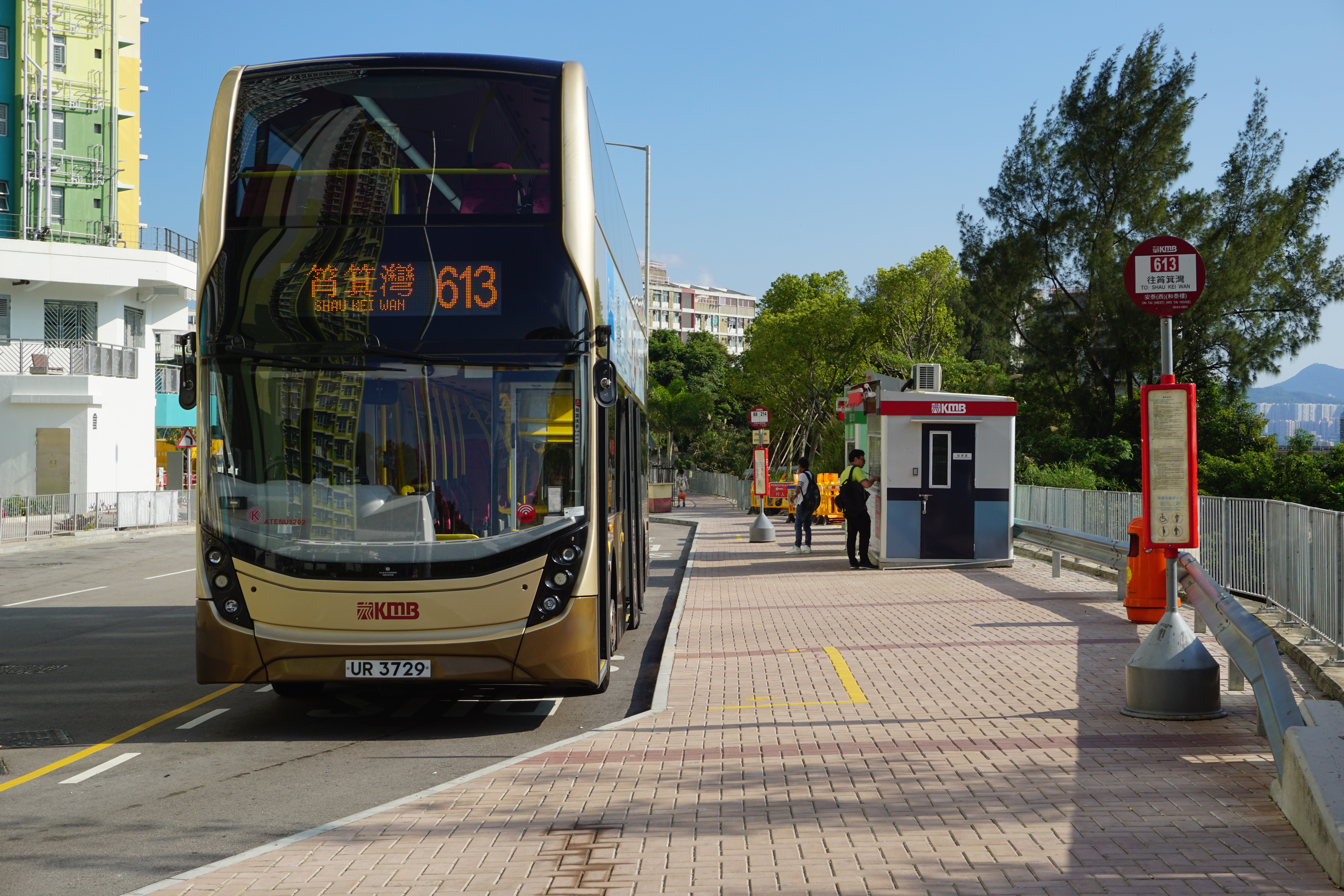 On Tai (West) Bus Terminus in Sau Mau Ping, Hong Kong.